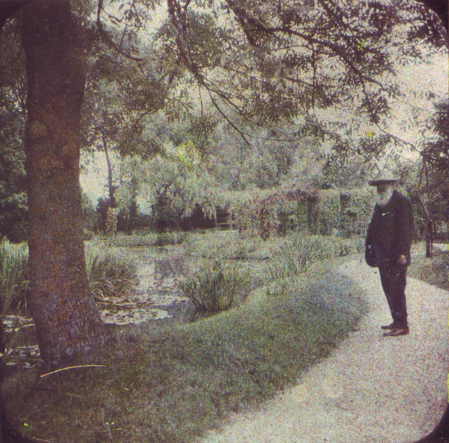 Monet and his gardens